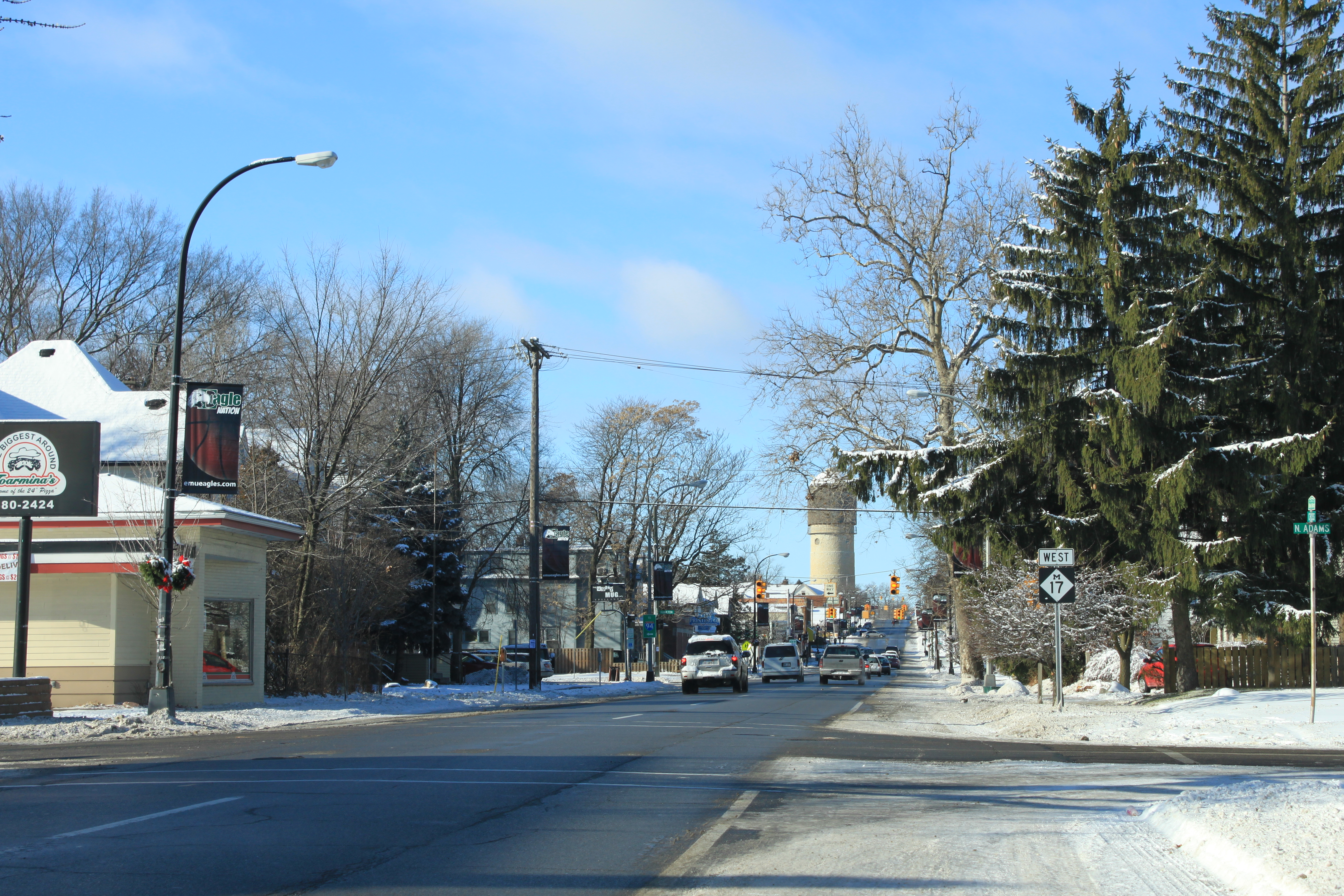 M-17 Michigan highway, Cross Street facing west at N. Adams street, Ypsilanti, Michigan. See File:Cross St west toward Ypsi water tower 2007.jpg for a similar shot in spring.